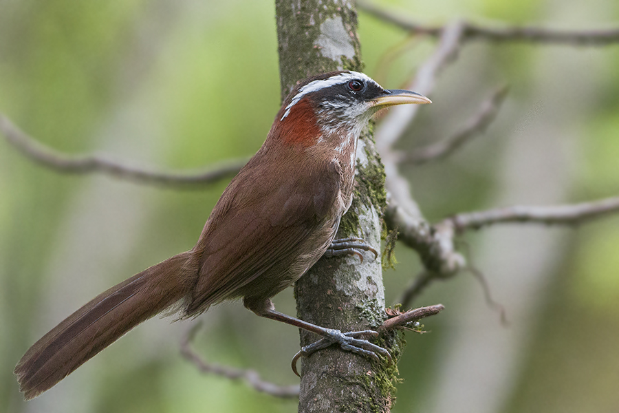 The species Streak-breasted Scimitar Babbler had been photographed from Zuluk of East Sikkim district of Sikkim state of India on 25.05.2015.